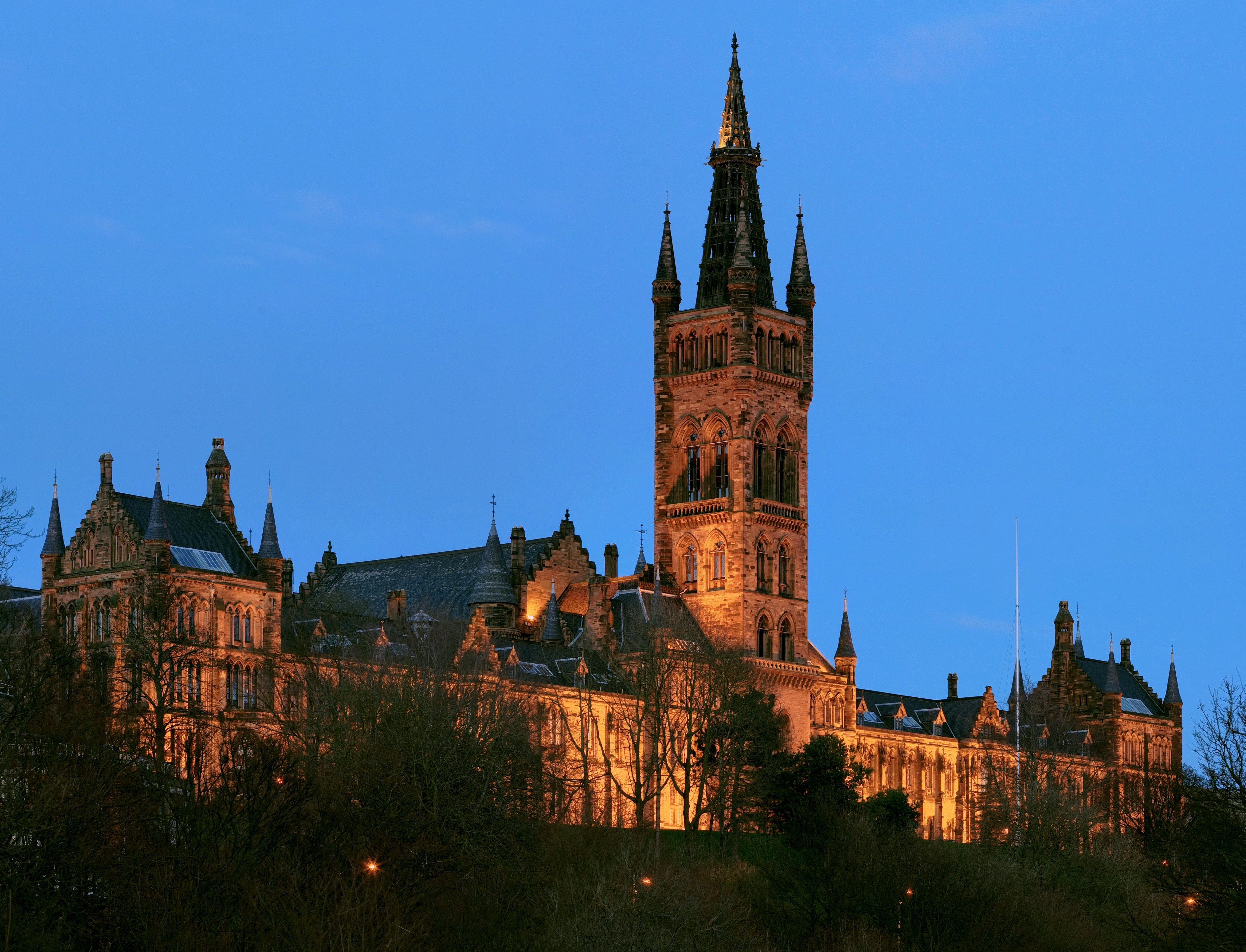 The Gilbert Scott Building at the University of Glasgow. Taken by myself with a Canon 5D and 100mm f/2.8 lens. It is a four segment HDR tone mapped and stitched image.